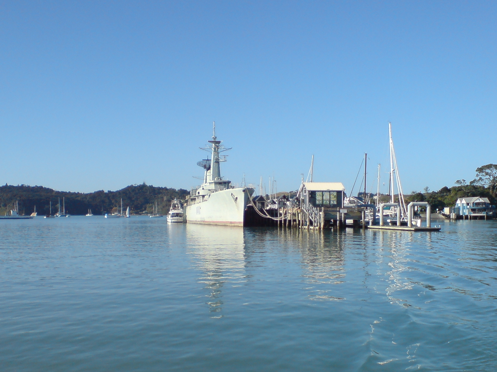 The HMNZS Canterbury at Opua in the Bay of Islands, New Zealand, having some last equipment taken off before being scuttled as a dive wreck.